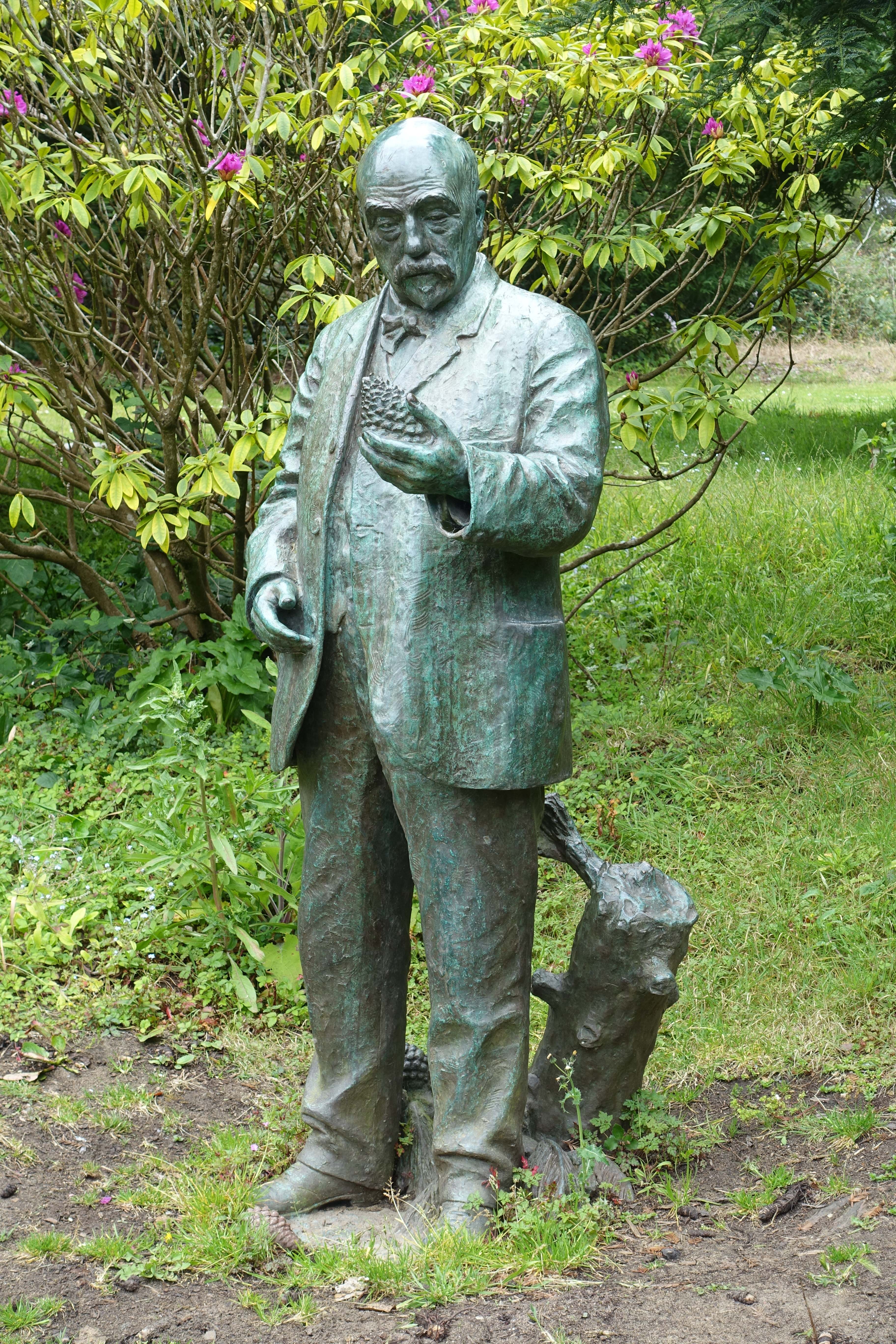 John McLaren by Melvin Earl Cummings (1876-1936) - Golden Gate Park, San Francisco, California, USA. This artwork is in the public domain because the artist died more than 70 years ago.